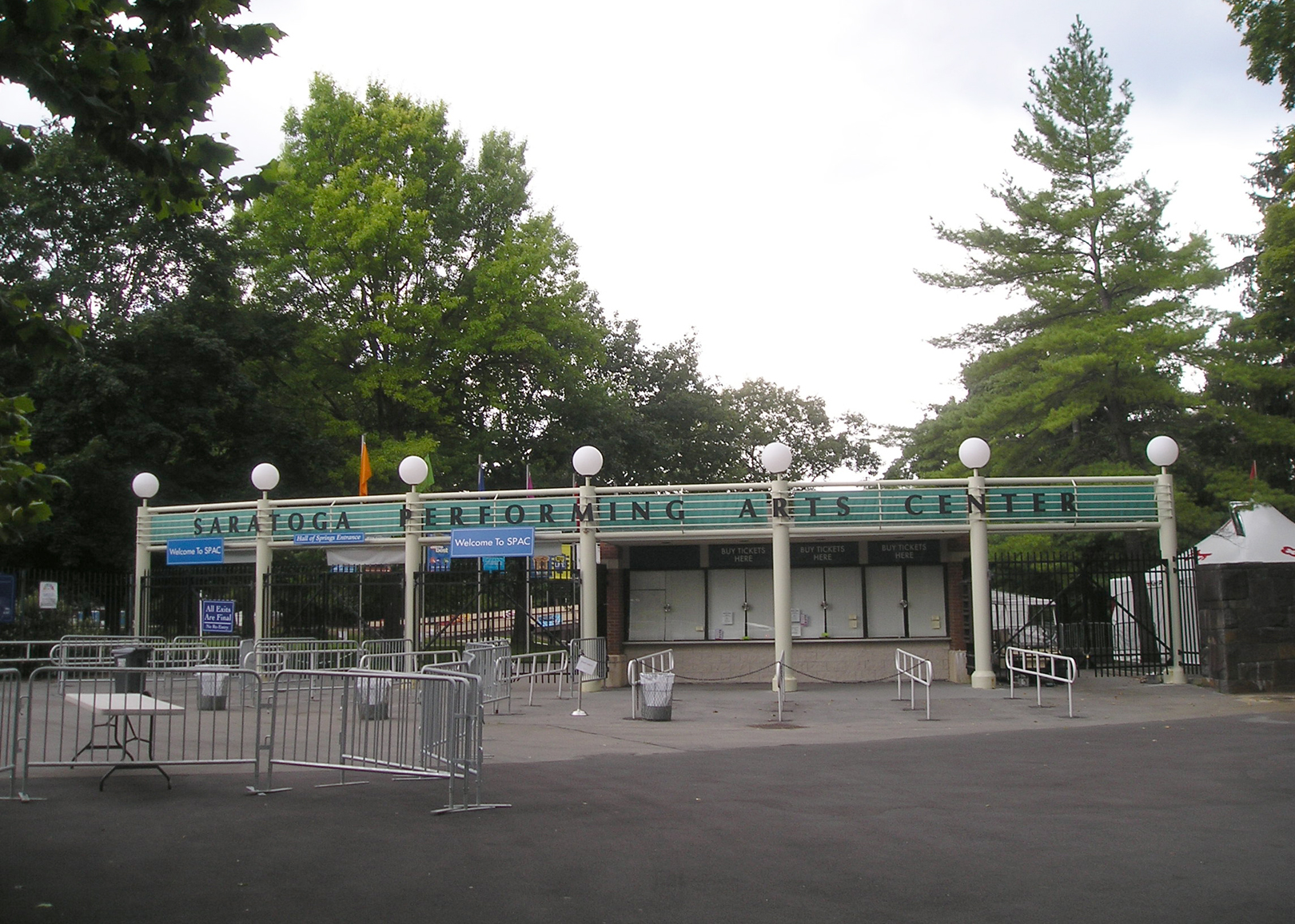 The turnstiles at the entrance to Saratoga Performing Arts Center inside Saratoga Spa State Park at the edge of the park's golf course.